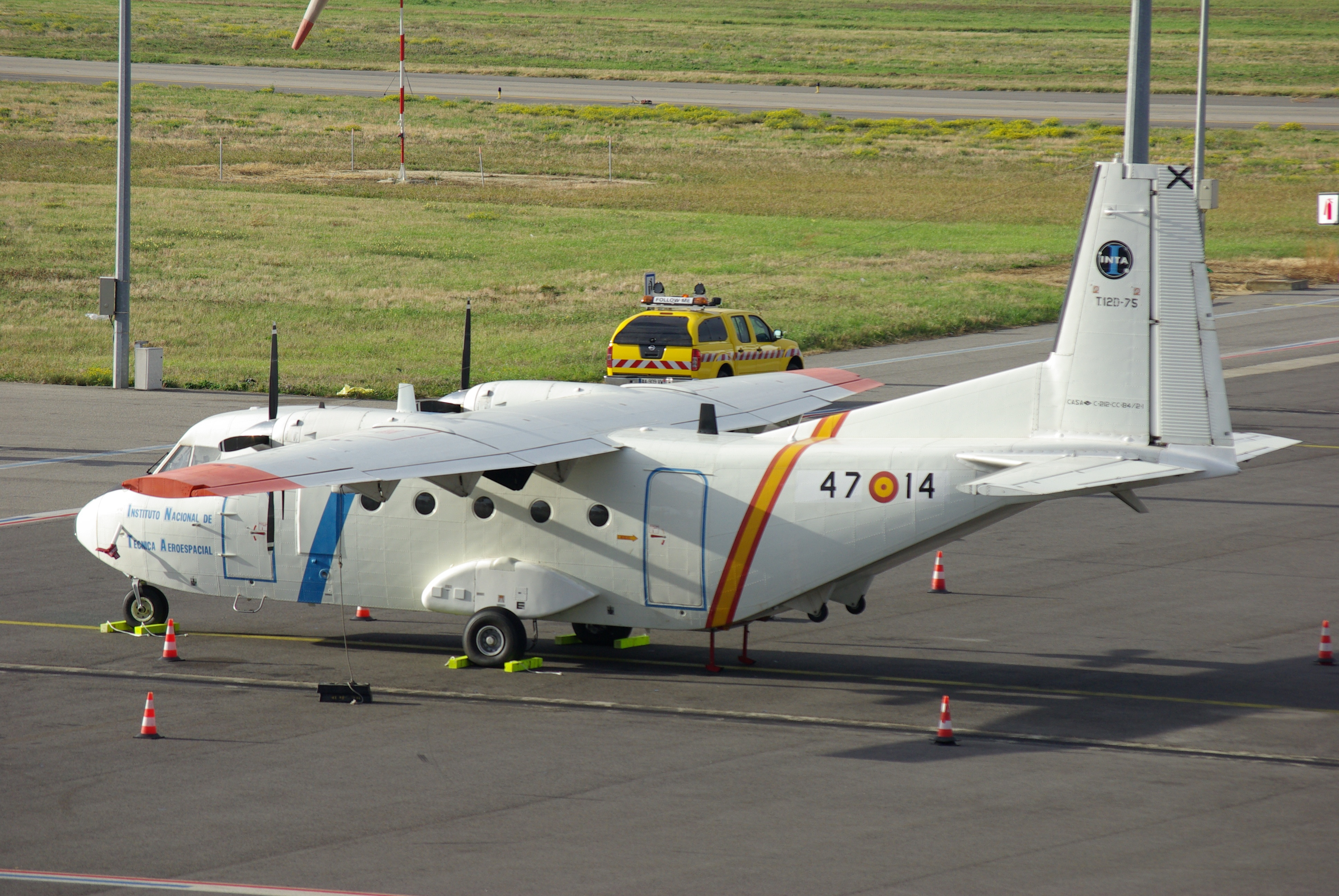 The CASA C-212 of the Instituto Nacional de Técnica Aeroespacial of Spain at the International Conference on Airborne Research for the Environment (ICARE 2010) in Toulouse.